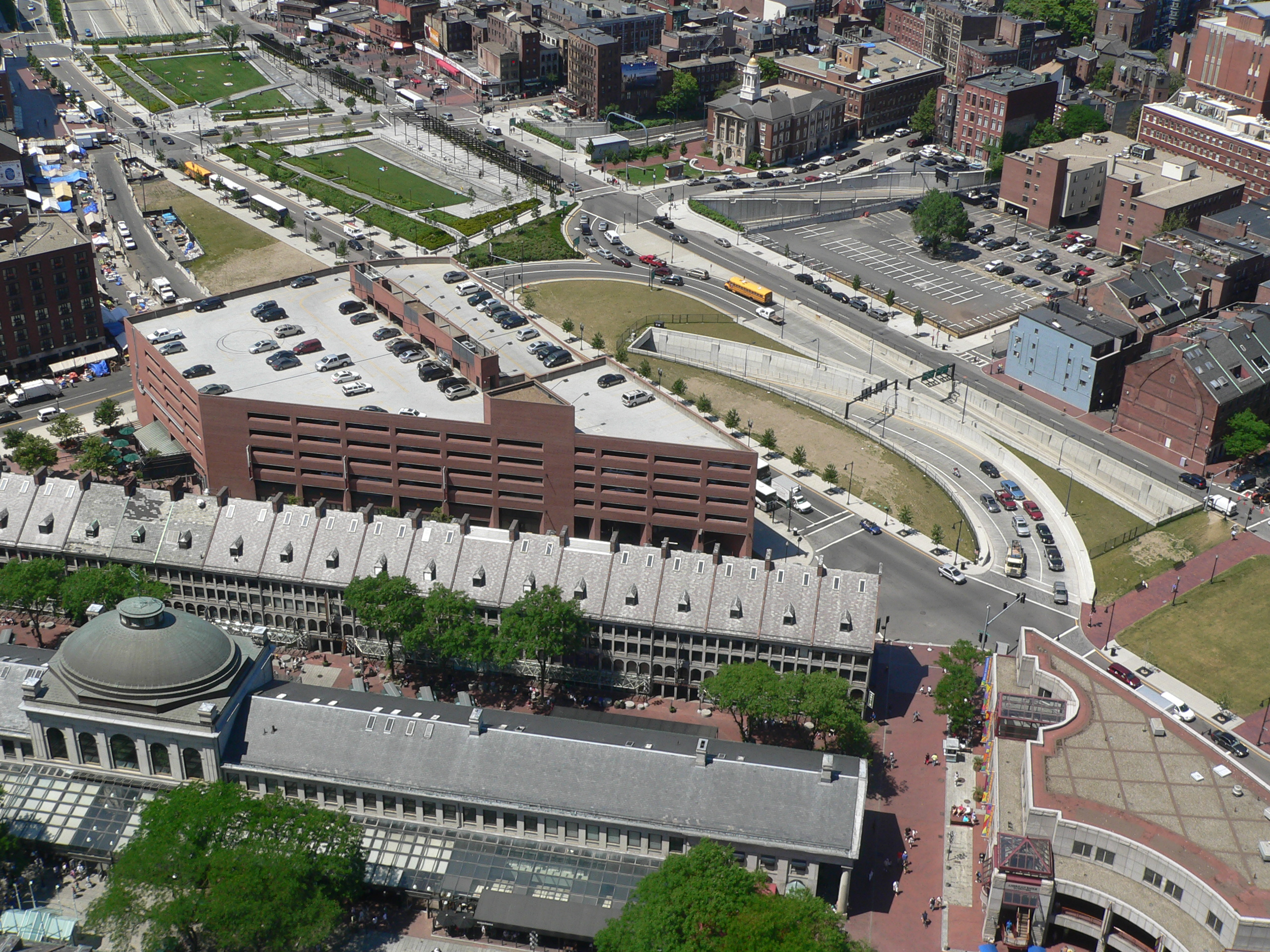 View from Custom House Tower of Quincy Market, Parcel 12, and the North End Parks in Boston